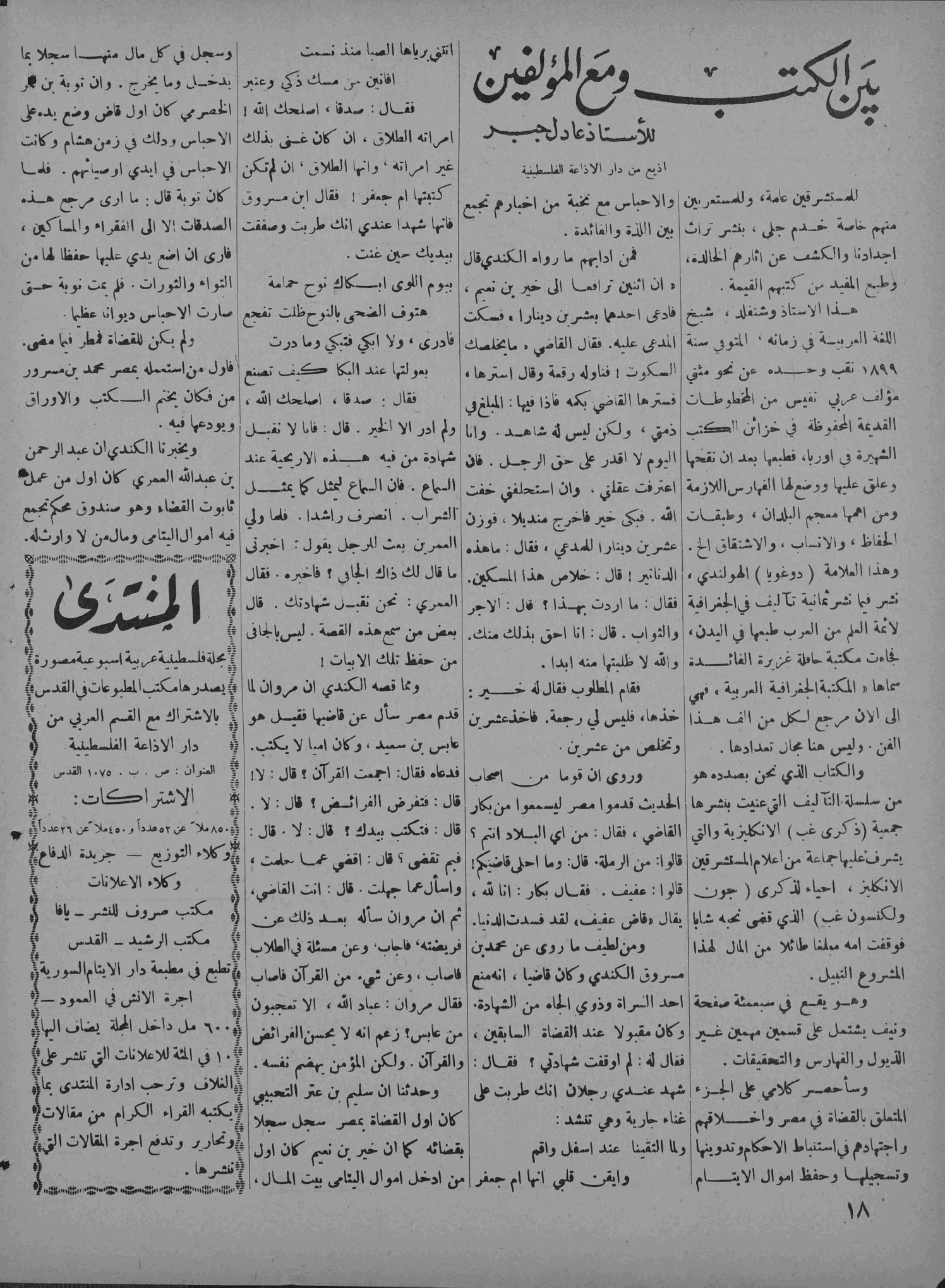 ِArticle was written by Adel Jabr in Al-Muntada newspaper